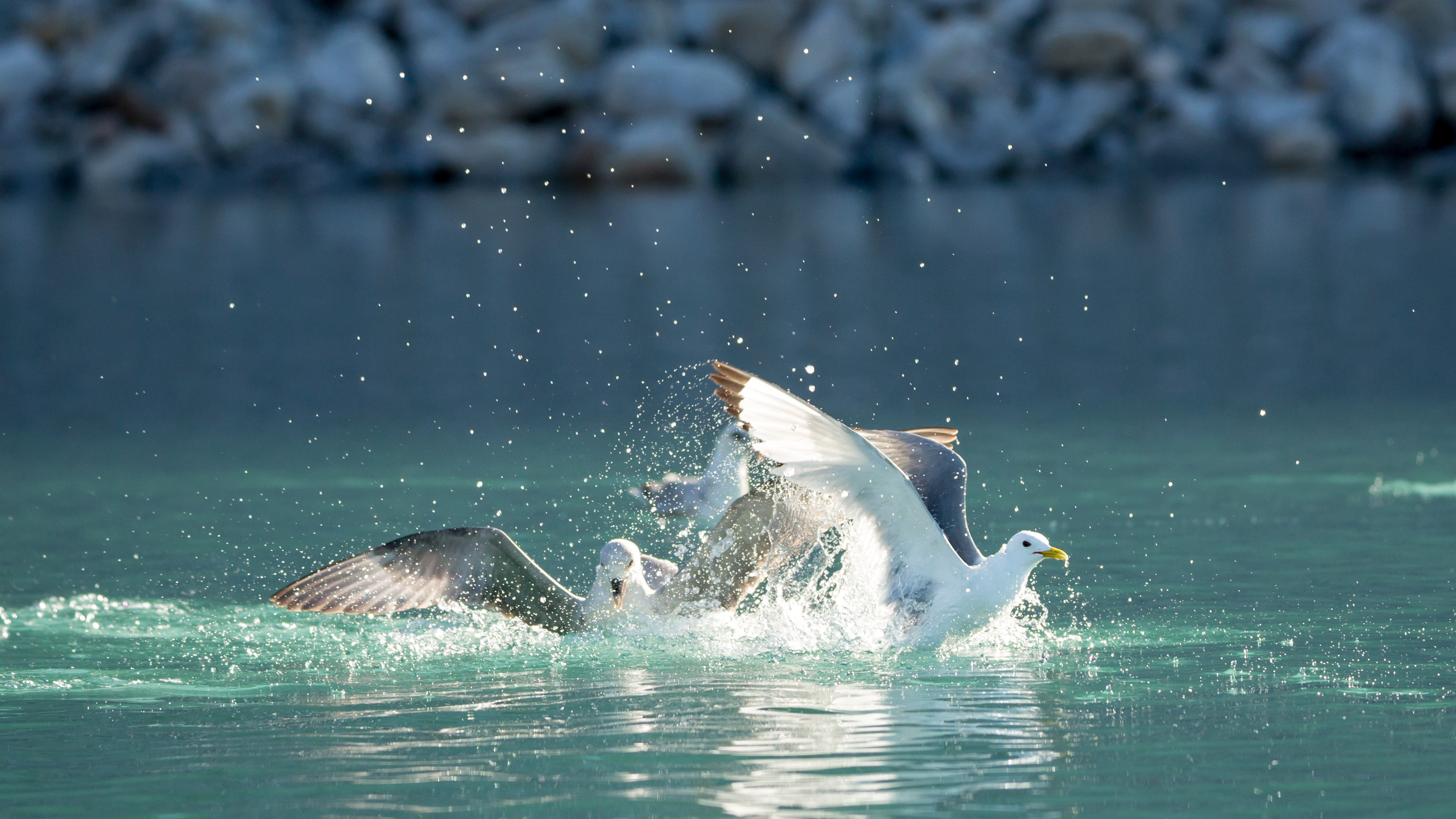 At times, northern fulmars Fulmarus glacialis and kittywakes compete for fishing grounds in the fjords of Svalbard. Here the fulmars protect a large shoal of small fish against the kittywakes that ever and ever again try to drop down and dive after the fish.